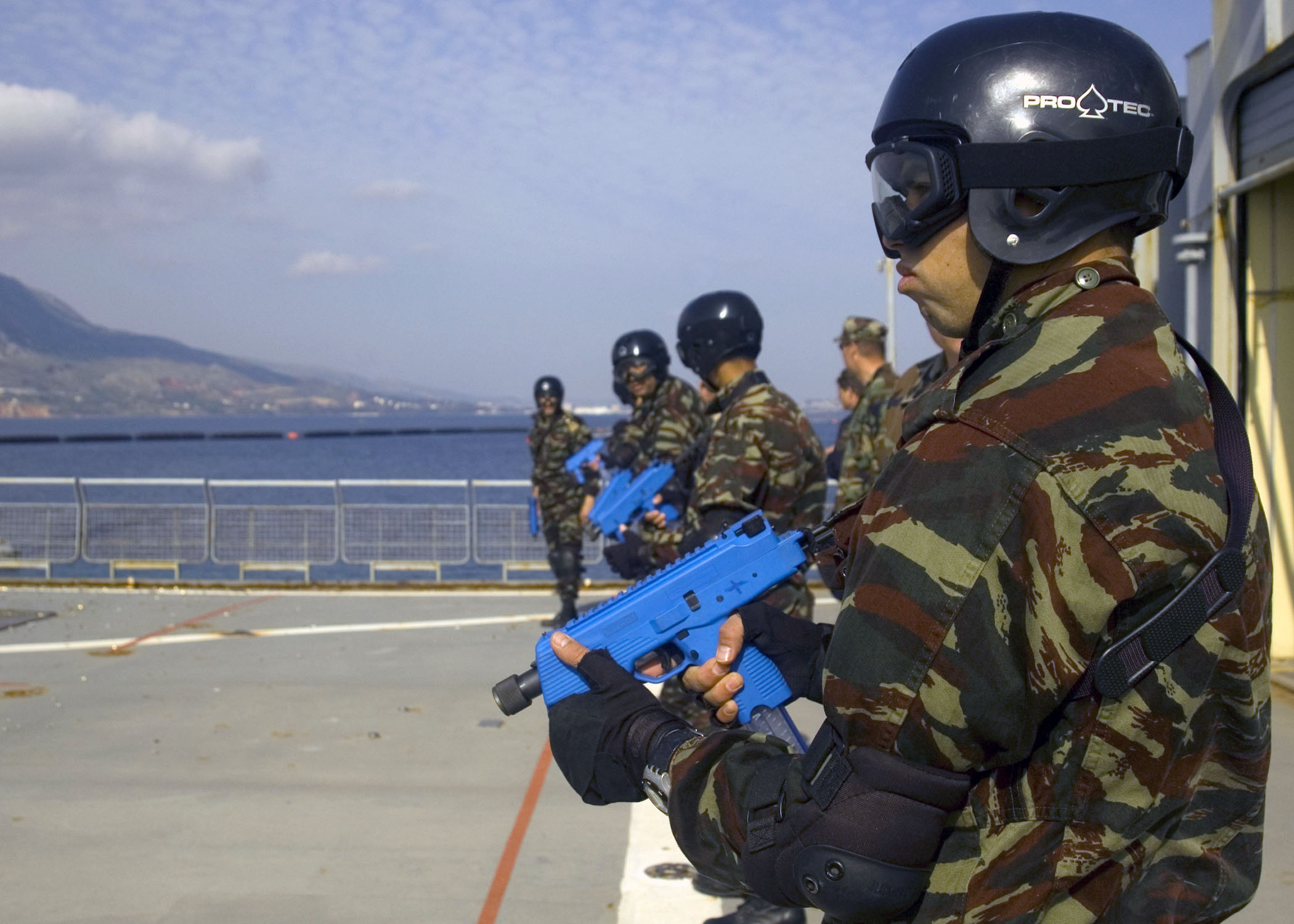 090428-N-9849P-032 SOUDA BAY, Greece (April 28, 2009) Marines from Morocco participate in small arms practical training exercises during exercise Phoenix Express 2009.